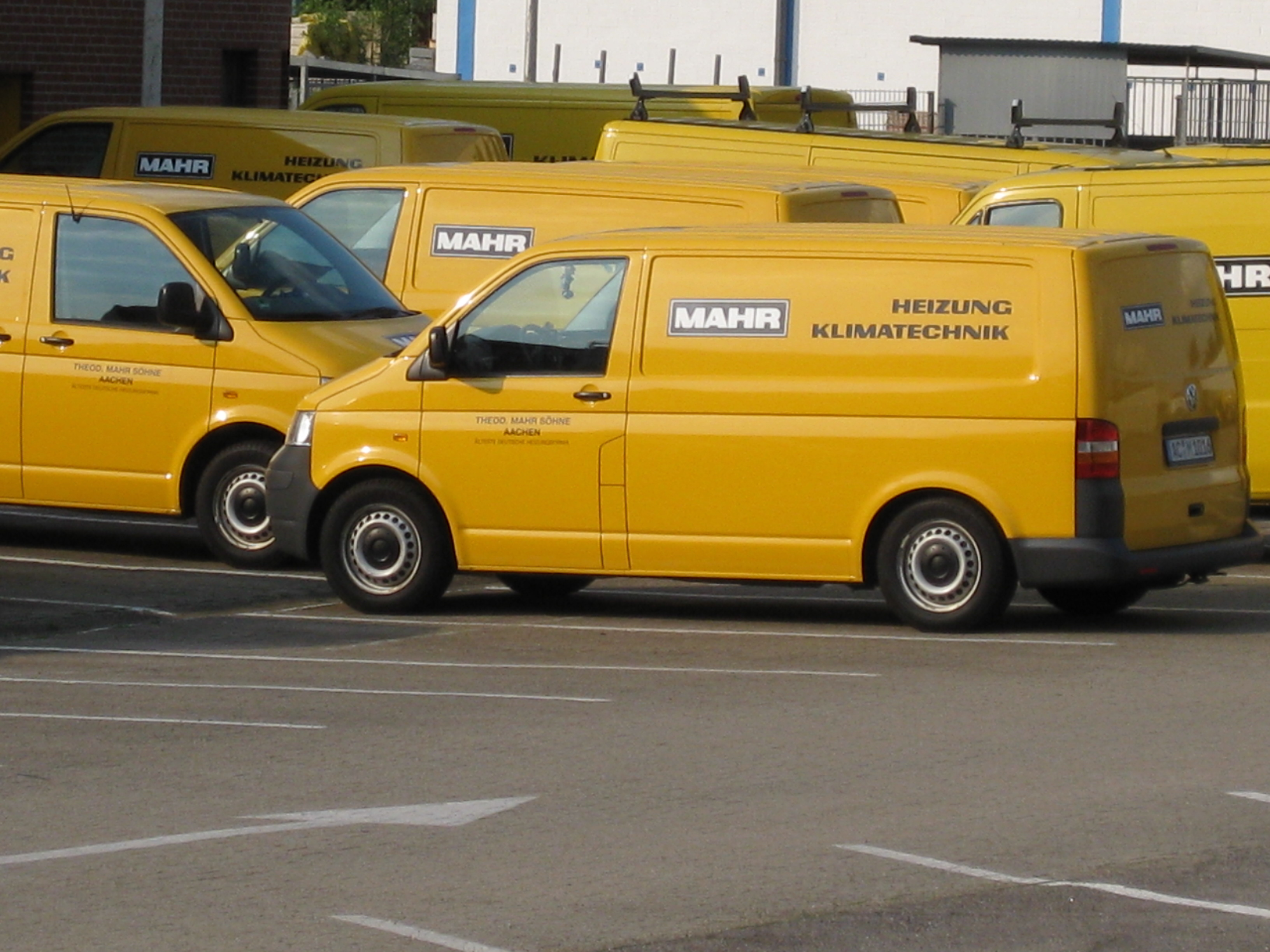 Ausschnitt des Fuhrparks